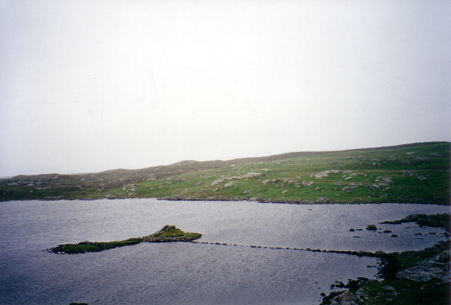 Dun Baravat Dun Baravat and its 100-foot long causeway in Loch Baravat.